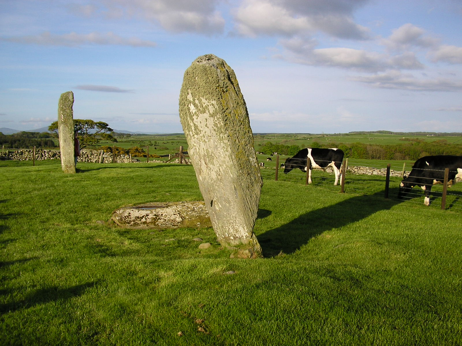 Drumtroddan standing stones. This page explains that the middle stone may have been deliberately flattened to 'Christianise' what was a pagan monument.